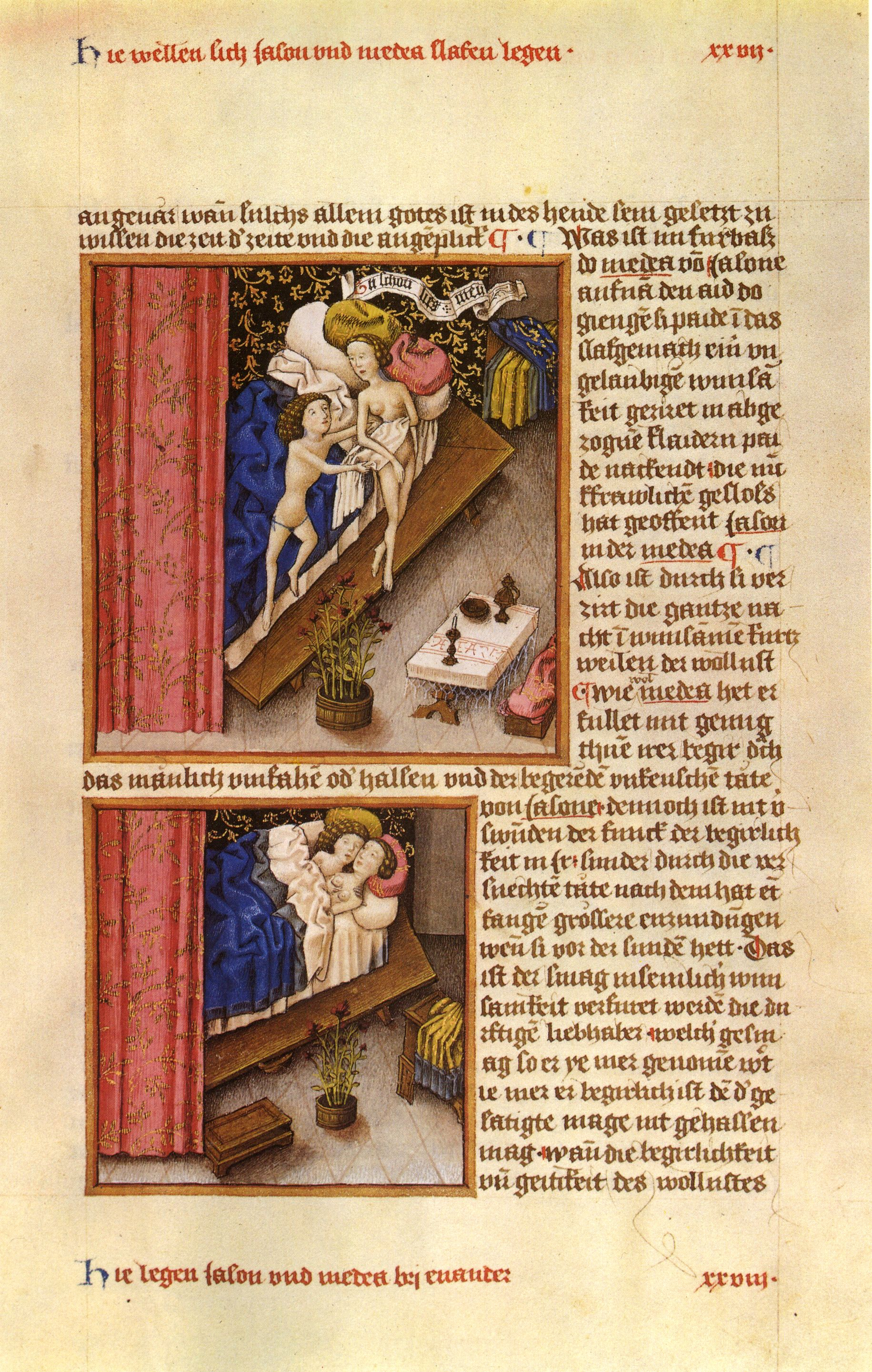 Illumination showing Jason and Medea in a manuscript of Guido delle Colonne (Guido de Columnis), Historia destructionis Troiae, in German translation. Vienna, Österreichische Nationalbibliothek, Ms. 2773, fol. 18r.